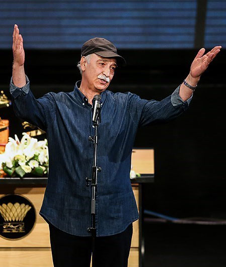 The closing ceremony of Shahrzad series in Tehran’s Milad Tower the series’ cast as well as the country’s artistic and political figures in attendance.